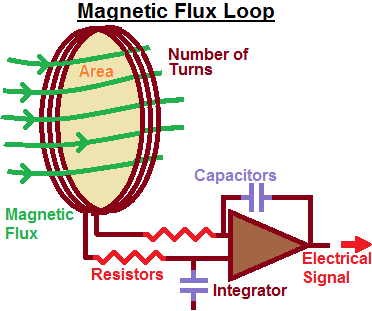 This is a diagram of the a passive flux loop. A magnetic field passes through a set of wire loops. The field generates a current in the wires, this can be read and be used to determine properties of the magnetic field. The voltage generated is equal to the number of loops times the area and magnetic field divided by the time constant of the integrator circuit.